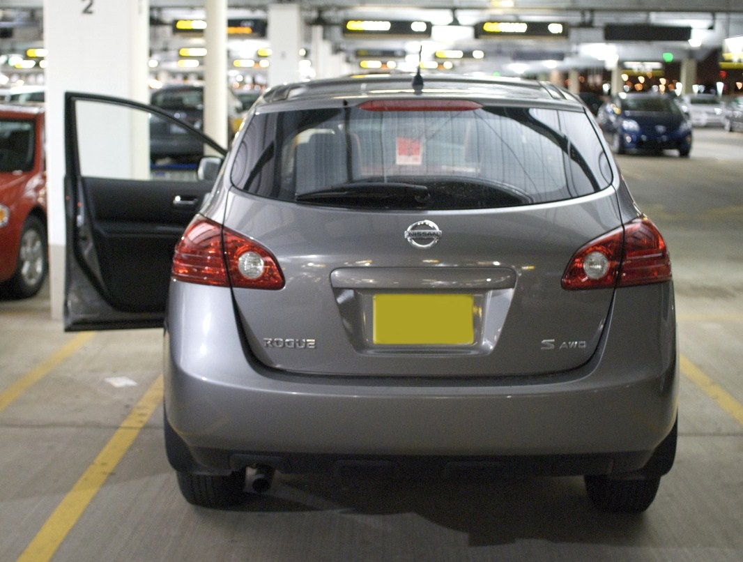 NISSAN ROGUE S AWD